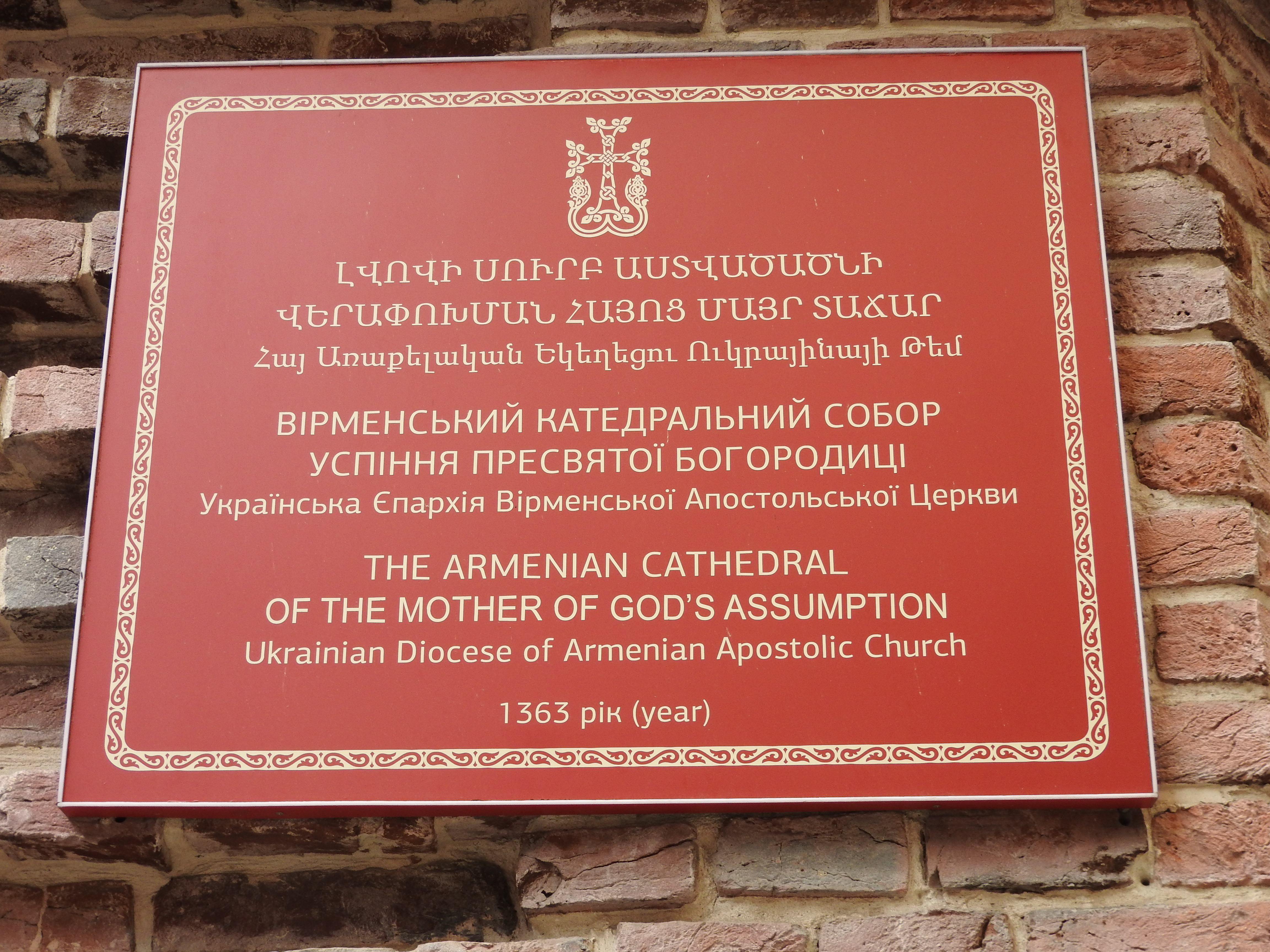 Armenian Cathedral of Lviv, Ukraine